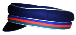 Student cap of Corps Berlin, a German fraternity